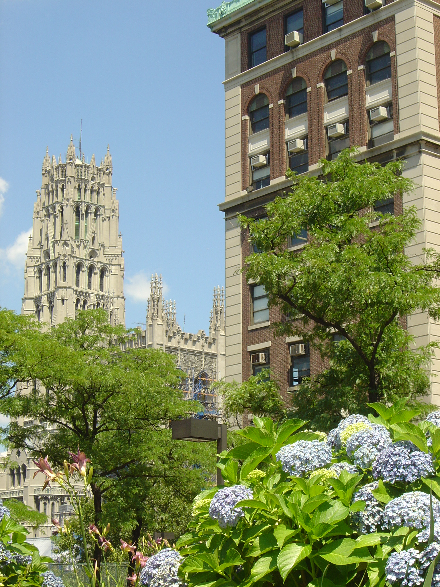 Union Theological Seminary as seen from the campus of Columbia University in New York City. The top of the Union Theological Seminary can be seen between the church and the unidentified Columbia building.